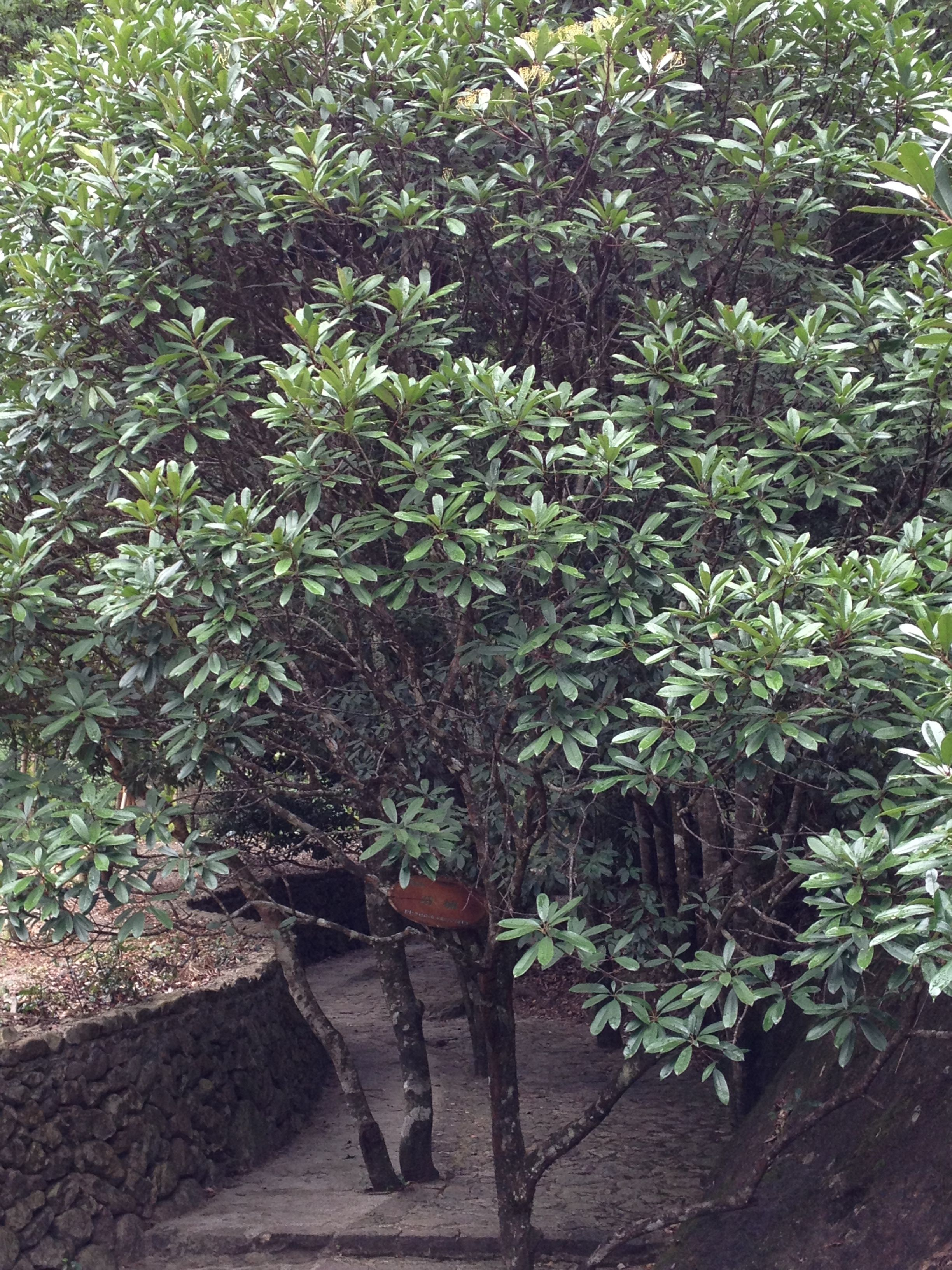 Photinia serratifolia in Tongling Gorge, Tonglingshan (铜铃山) National Forest Park, Zhejiang, PR China